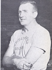 Nebraska Cornhuskers basketball coach Jerry Bush